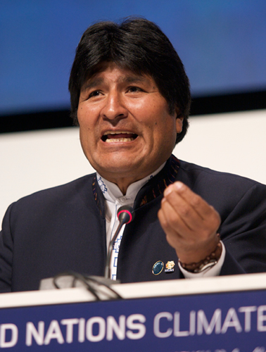 Former President of Bolivia, Evo Morales, December 2009.